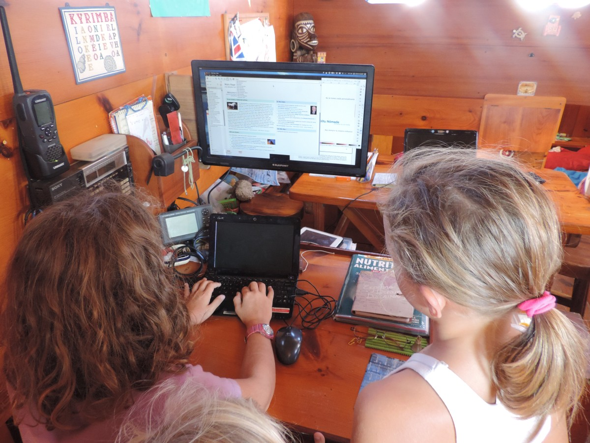 The Goodall girls using Kiwix aboard the Kyrimba